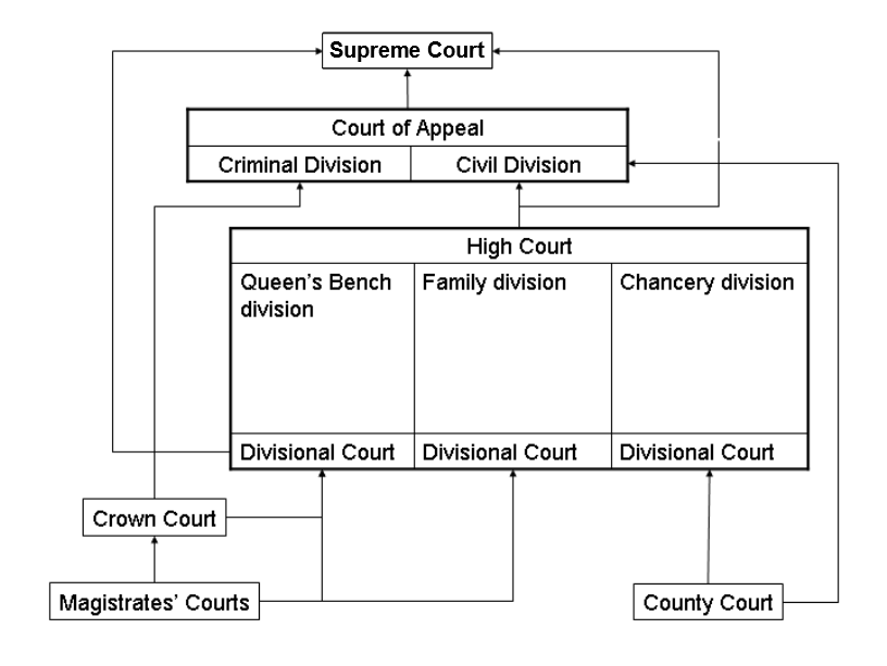 Outline of English courts system - this is the work of A N Cutler which has been released into the public domain